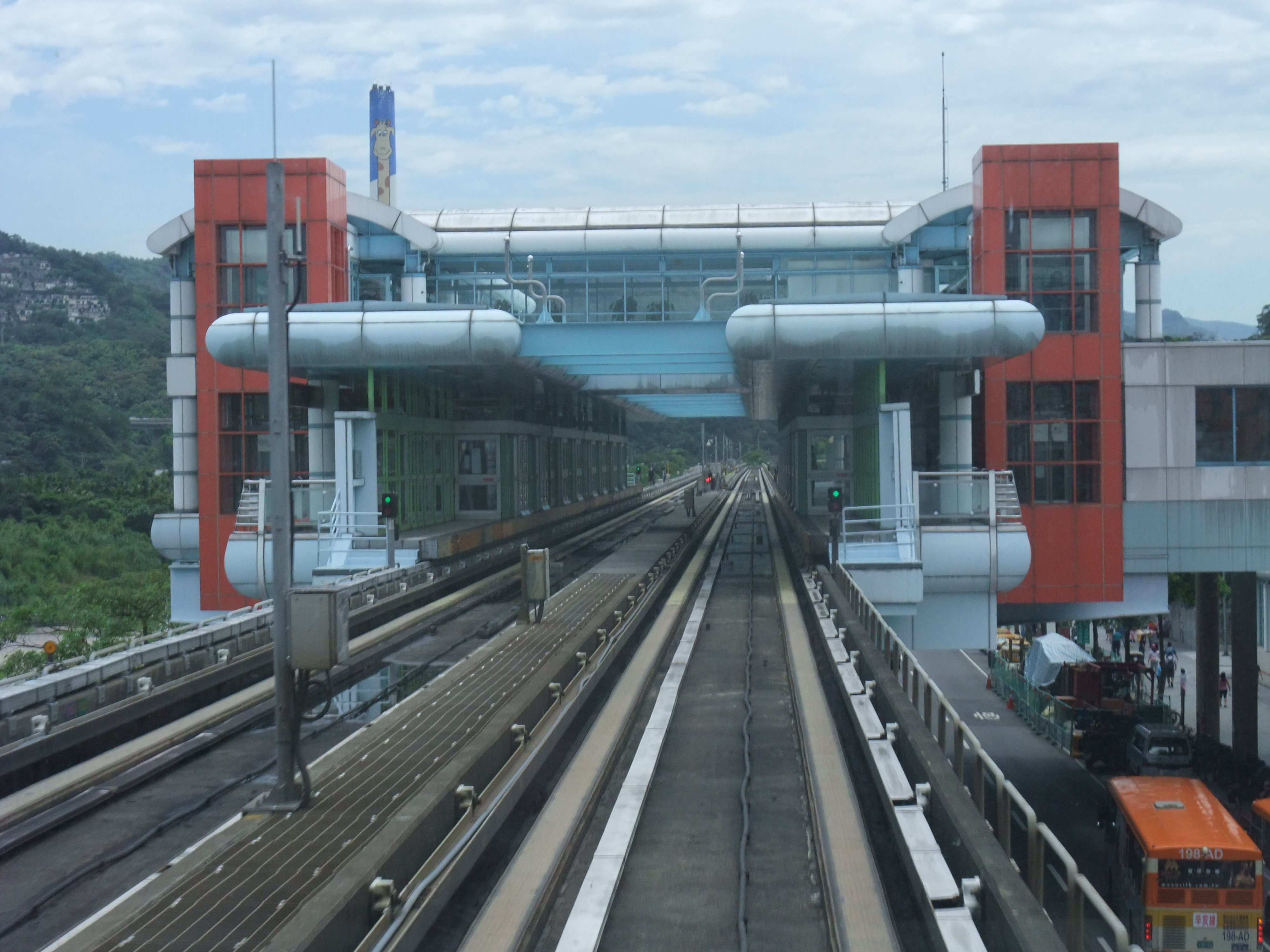 Taipei MRT Muzha Line Taipei Zoo Station.